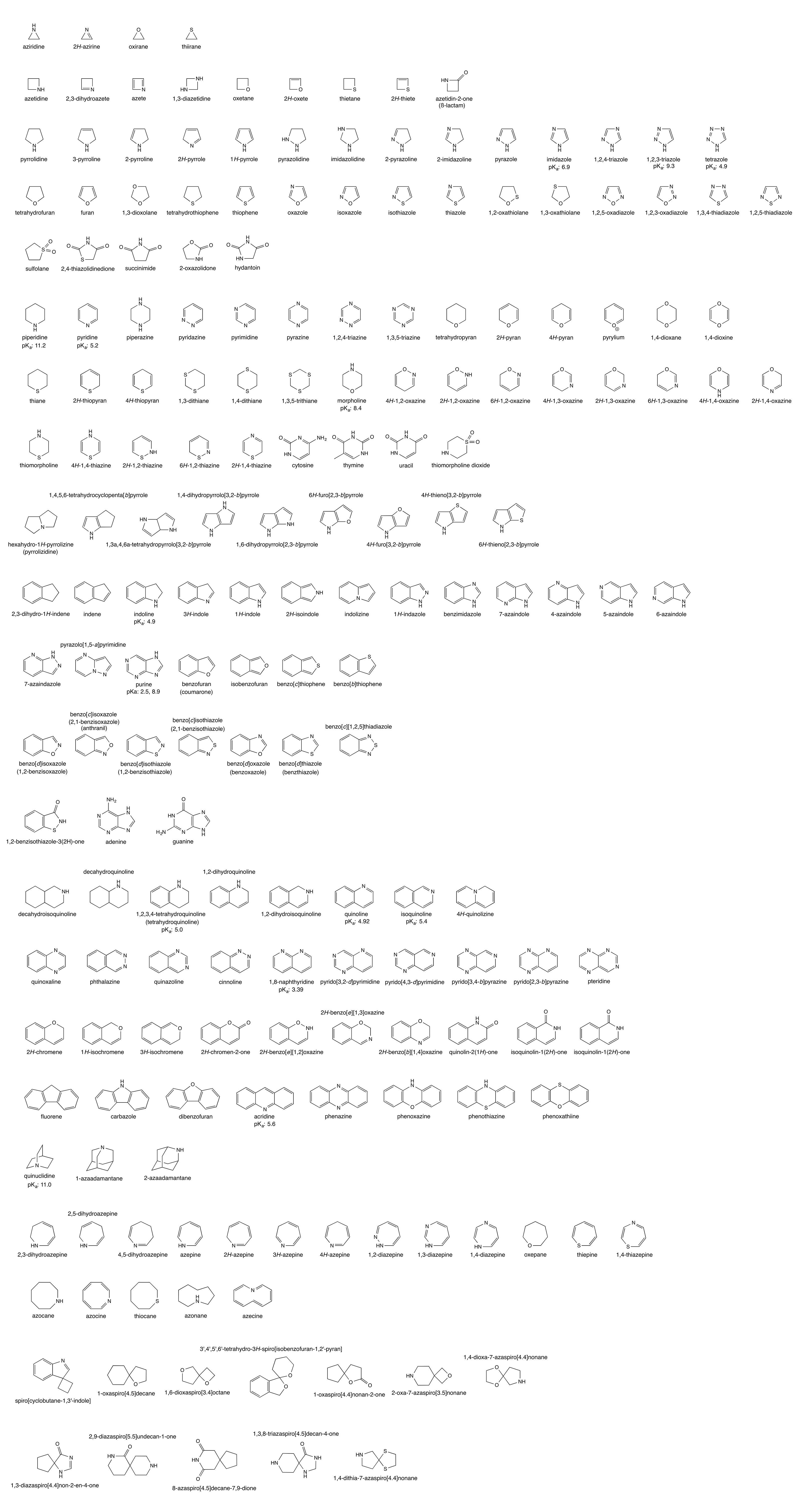 image of a large number of common heterocycle compounds